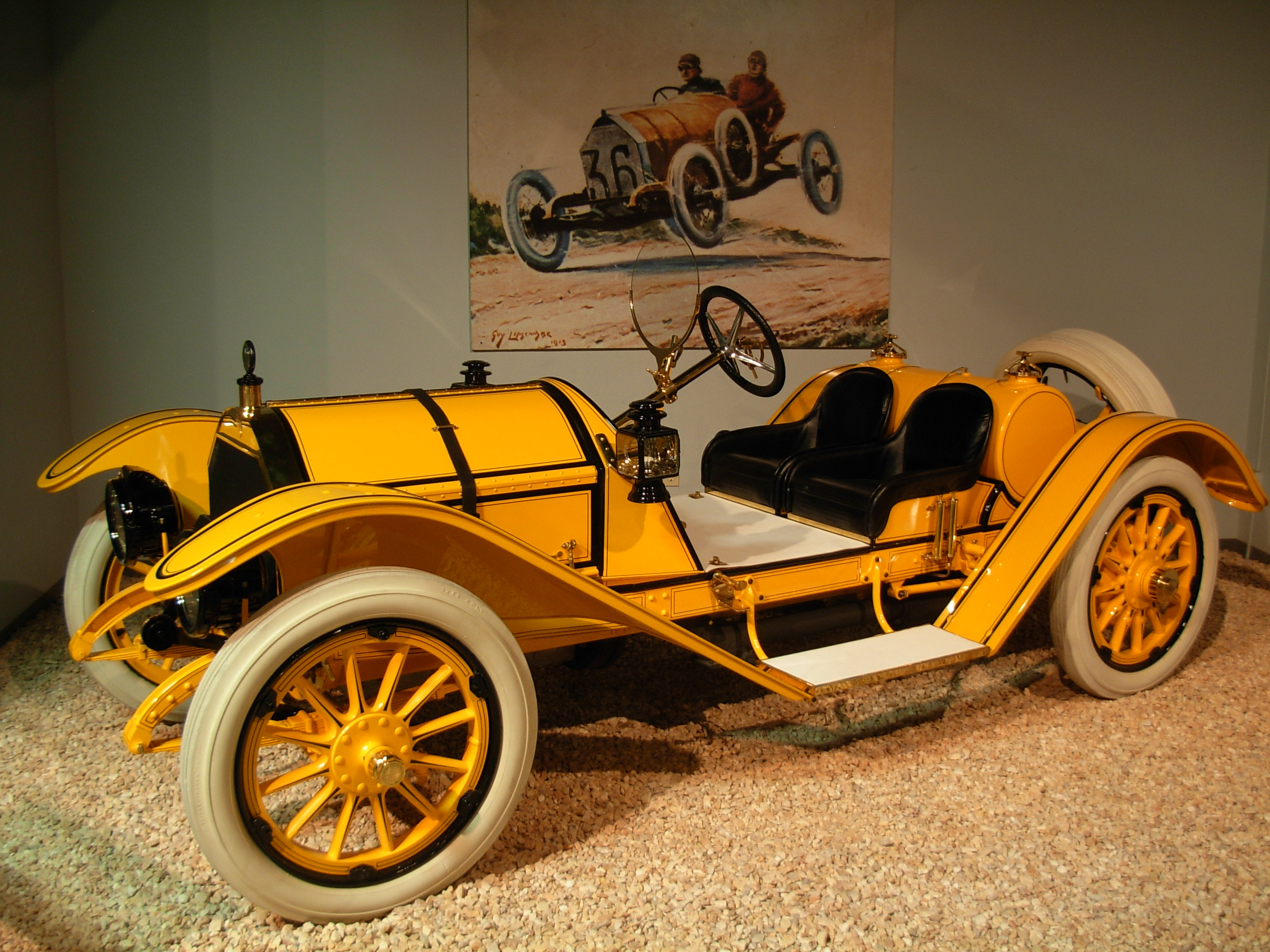 1913 Mercer Series J, Type 35 Raceabout National Automobile Museum, Lake St, Reno, Nevada, USA.